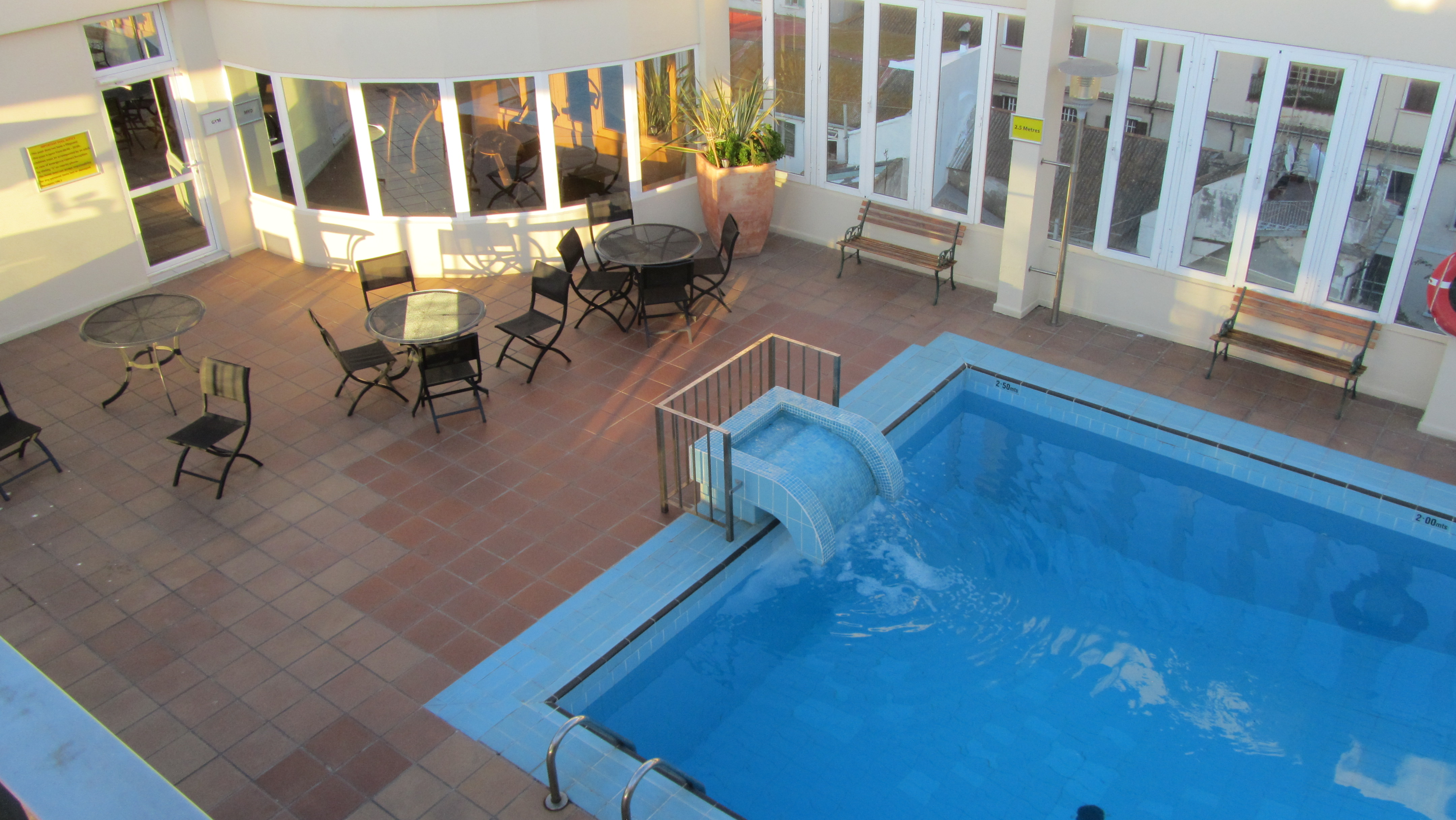 The pool on the roof of the O'Callaghan Eliott Hotel in Gibraltar